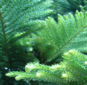 Foliage of an Araucaria species (either A. columnaris or A. heterophylla)